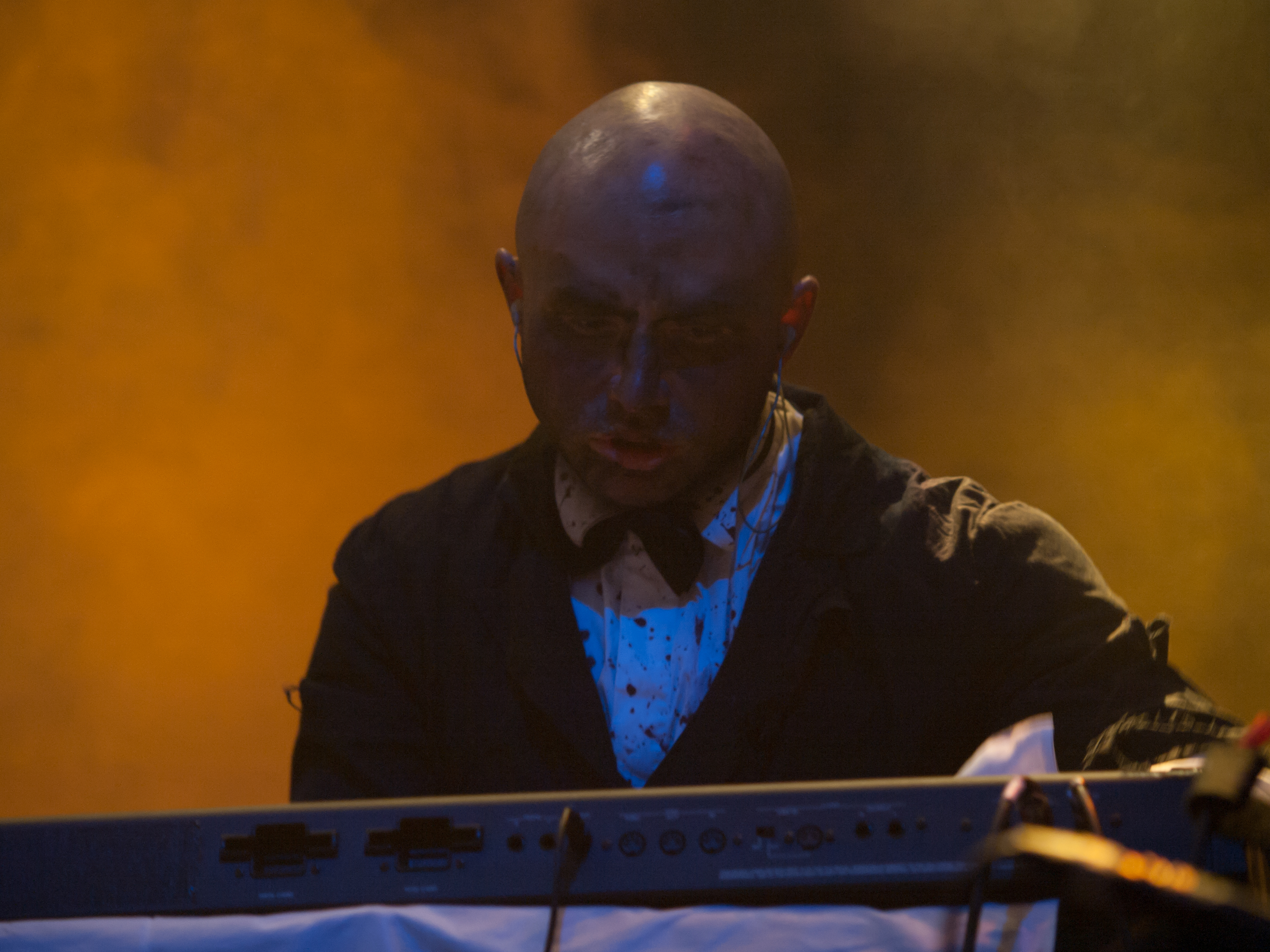 Fleshgod Apocalypse live at Finnish Metal Expo 2012 in Helsinki